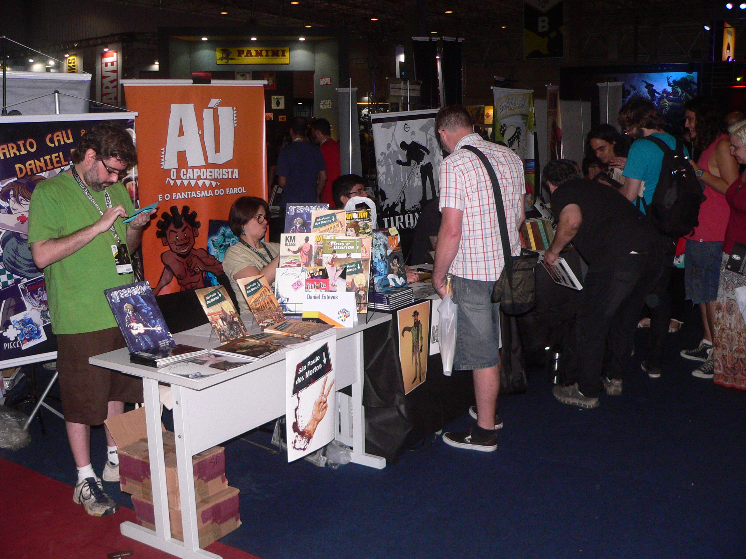 Cartoonists and fans at the Comic Con Experience in São Paulo, São Paulo, Brazil.